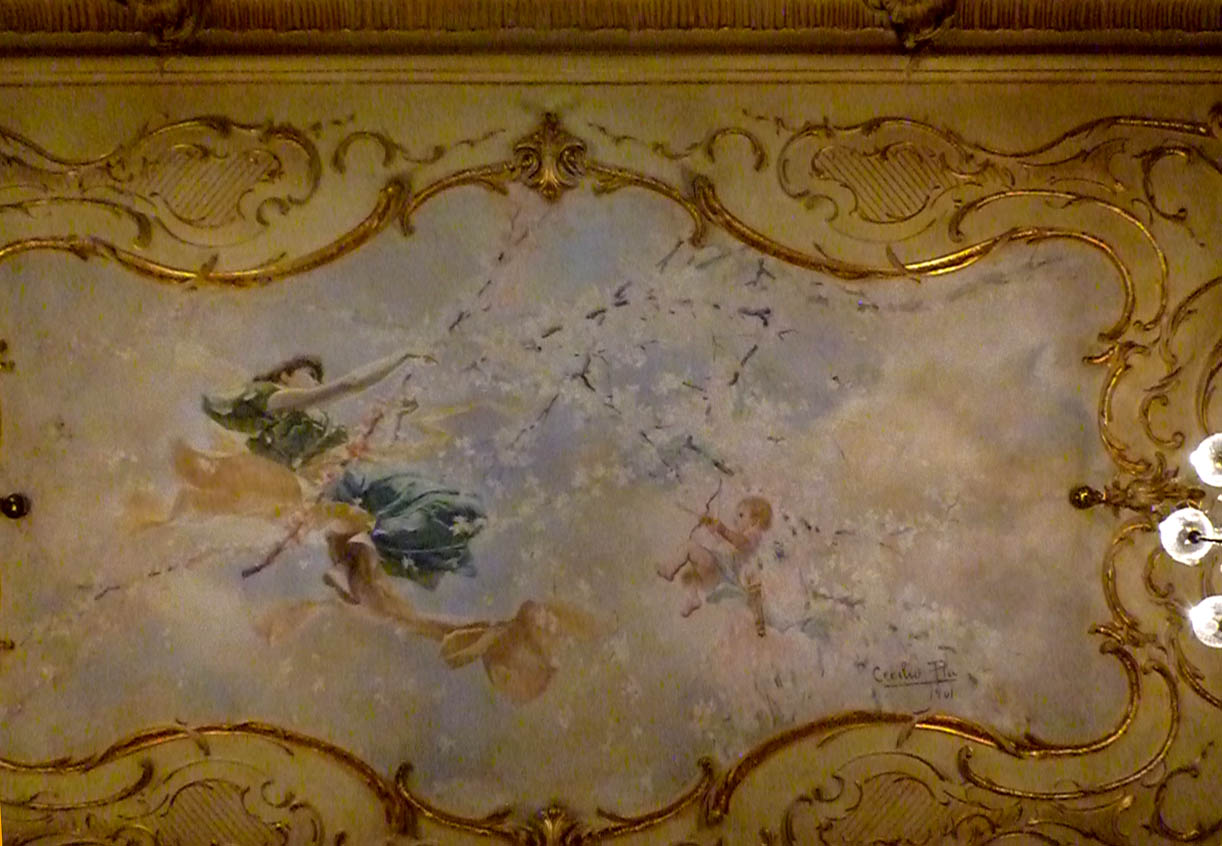 Paintings on the cieling of the Palacio de Aguirre in Cartagena (Spain). Painted by Cecilio Pla in 1901.